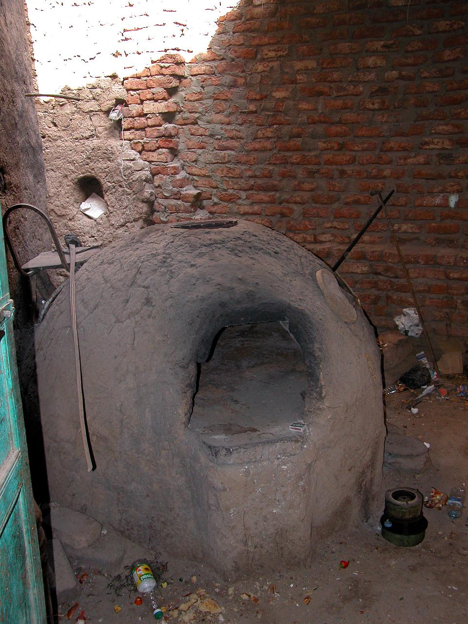 Oven they use to bake bread etc. Valley of the Kings, Egypt